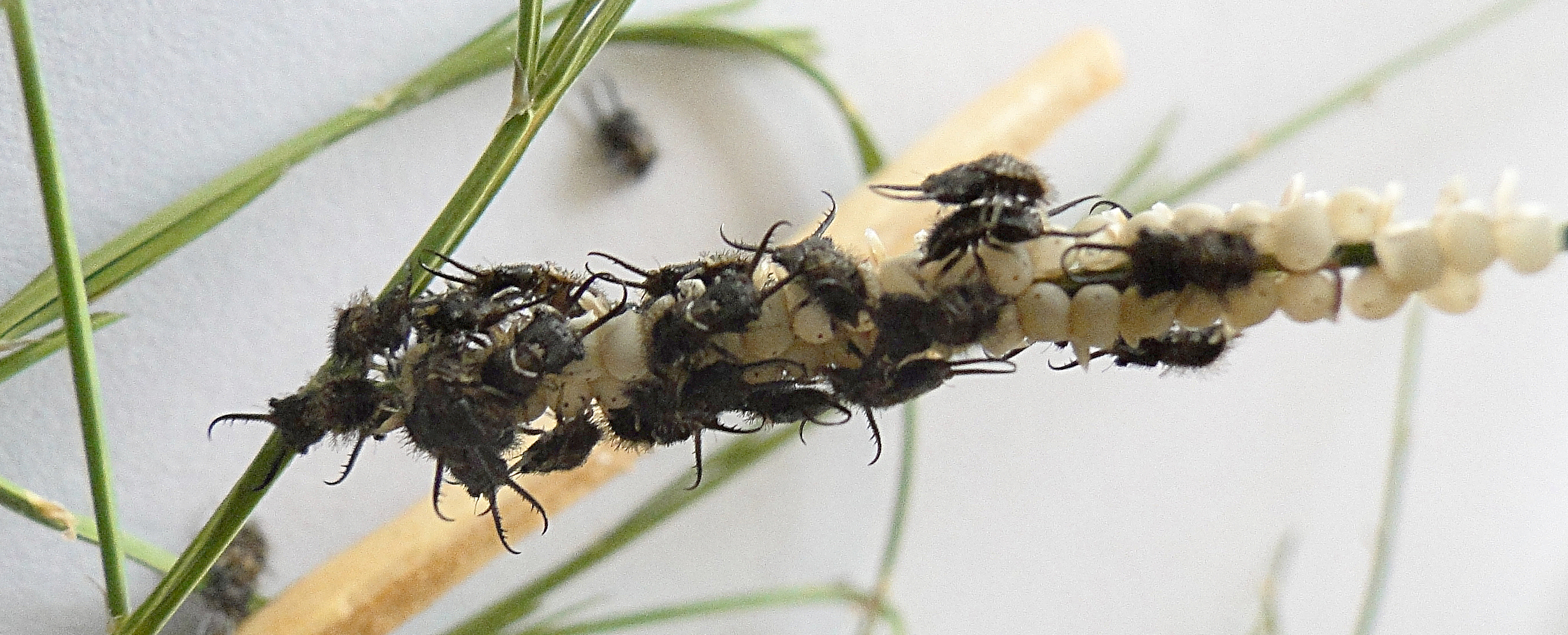 Unidentified Ascalaphidae. First instar larvae on their abandoned eggshells before dispersing.